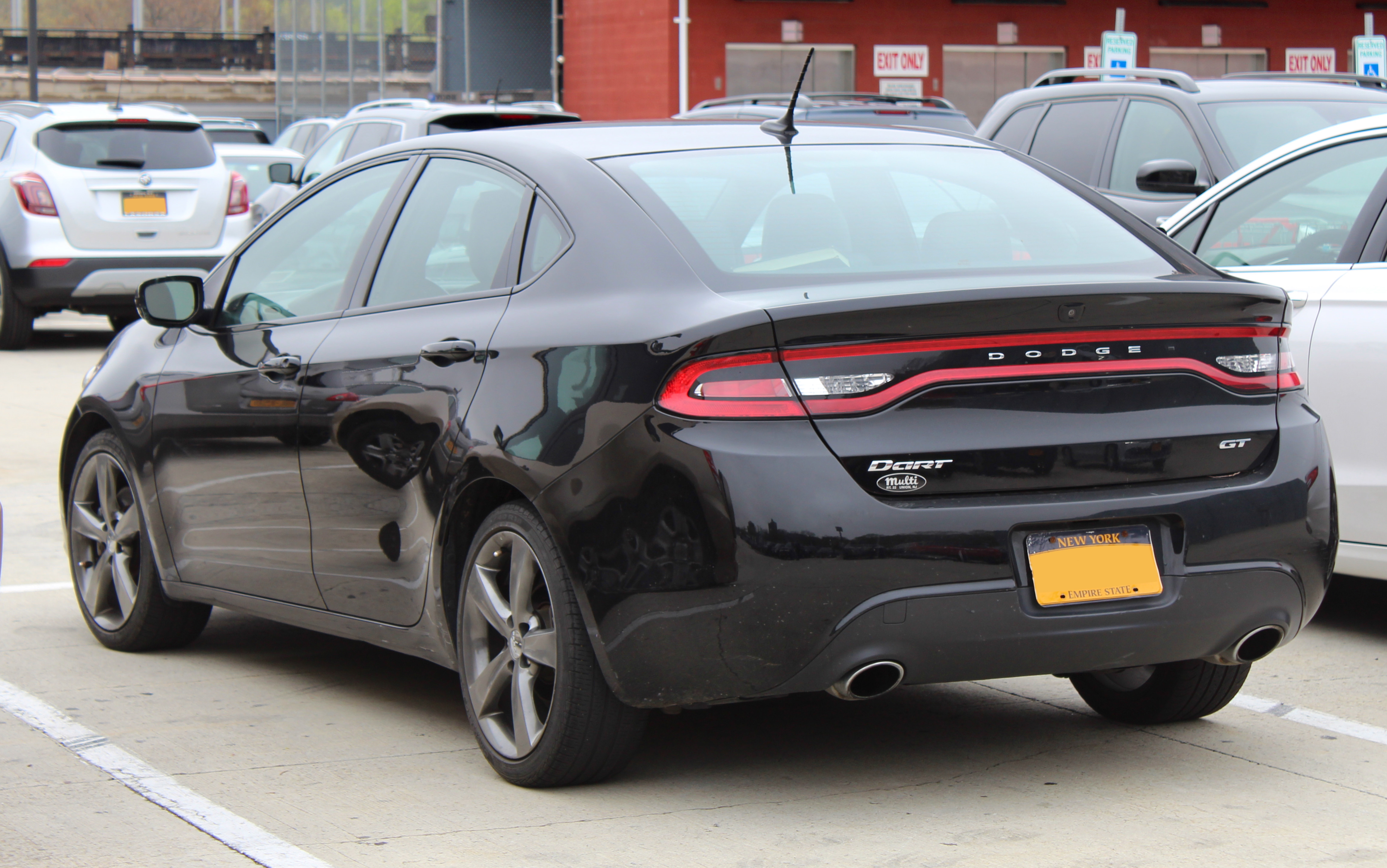 A 2014 Dodge Dart photographed in Bronx, New York, USA